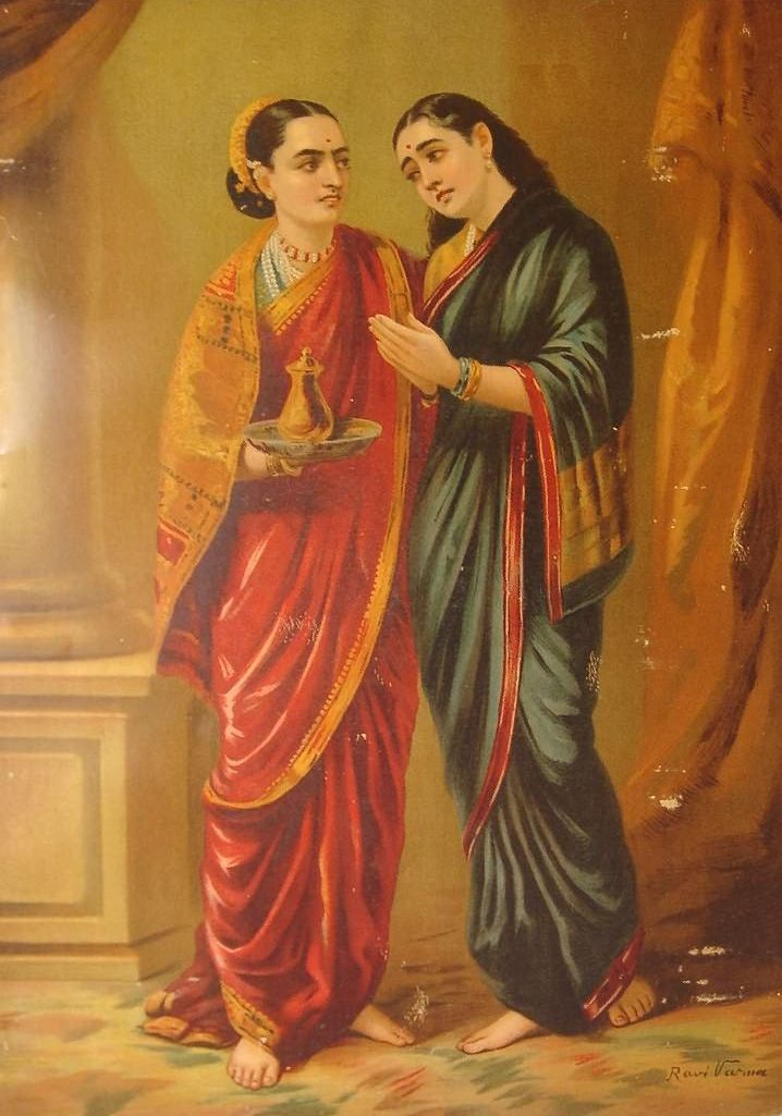 India LARGE Ravi Varma Litho DRAUPADI & SUDESHNA 11993 Description India LARGE Size RAVI VARMA Litho DRAUPADI SUDESHNA Press Ravi Varma Press Karli, Registered No 25 Size Unmatted Size 14in x 20in Condition Matted. Sl abrasions visible. Minor corner loss on lower right. Else Very Good. Photograph part of the description. Authentication Vintage. c 1910. This image contains digital watermarking or credits in the image itself. This image (or all images in this article or category) should be adapted by removing the watermark. The usage of watermarks is discouraged according to policy. If a non-watermarked version of the image is available, please upload it under the same file name and then remove this template. After removing the watermark, ensure that the removed information is present in the EXIF tags, the image description page, or both, and then either remove this template or replace it with Attribution metadata from licensed image or Metadata from image , whichever is appropriate to the image. If the old version is still useful, for example if removing the watermark damages the image significantly, upload the new version under a different title so that both can be used (e.g. File:Mount_Everest.jpg → File:Mount_Everest - no watermark.jpg . After uploading the non-watermarked version, replace this template with: superseded|File:Mount Everest - no watermark.jpg|image without watermarks , replacing the italicised name with the file name in question.